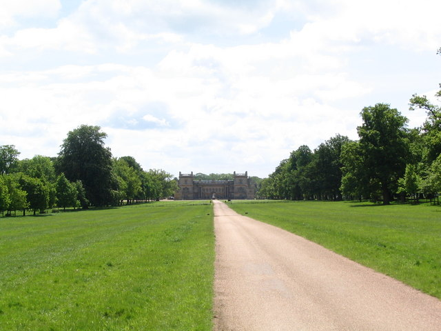 Grimsthorpe Castle. Looking down North Avenue